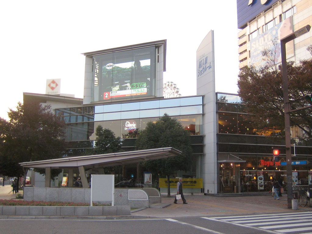 JETRO_Inported_Cars_Showroom (JETRO輸入車ショールーム), Nagoya, Aichi, Japan